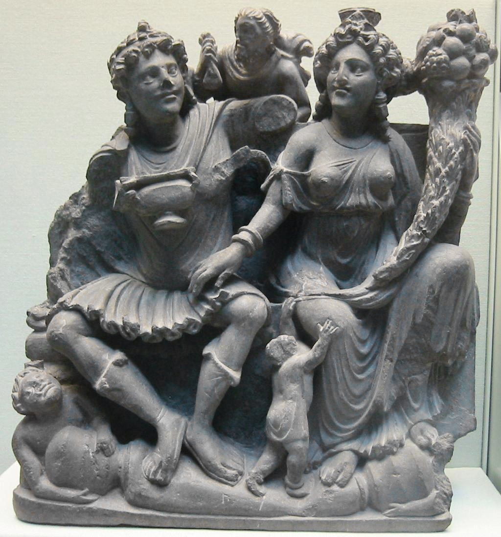 Pharro and Ardoxsho. British Museum. Personal photograph 2006